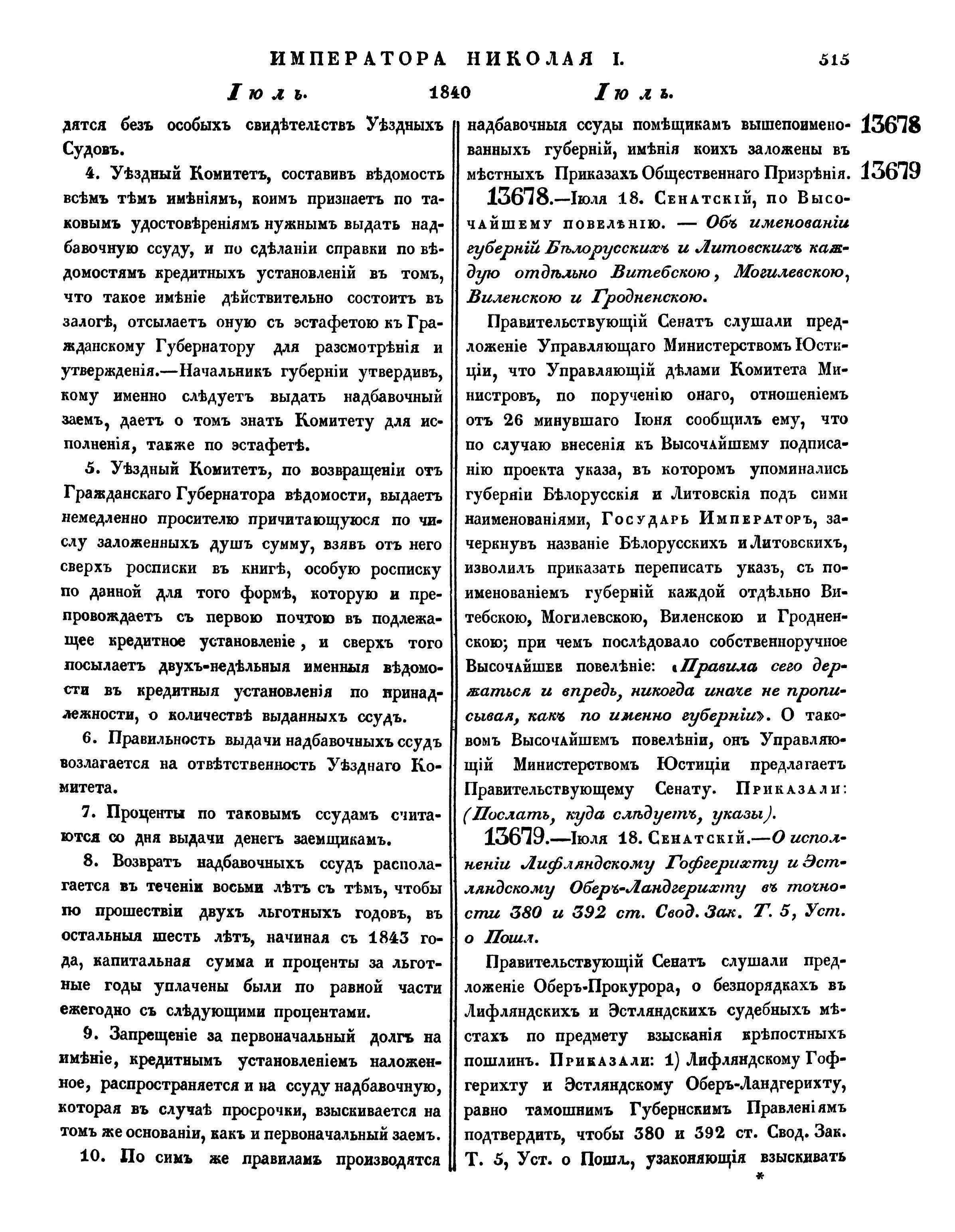 Complete Collection of Laws of the Russian Empire. Vol. 2, Т.15 nr 13678 - page 515, 1840 AD